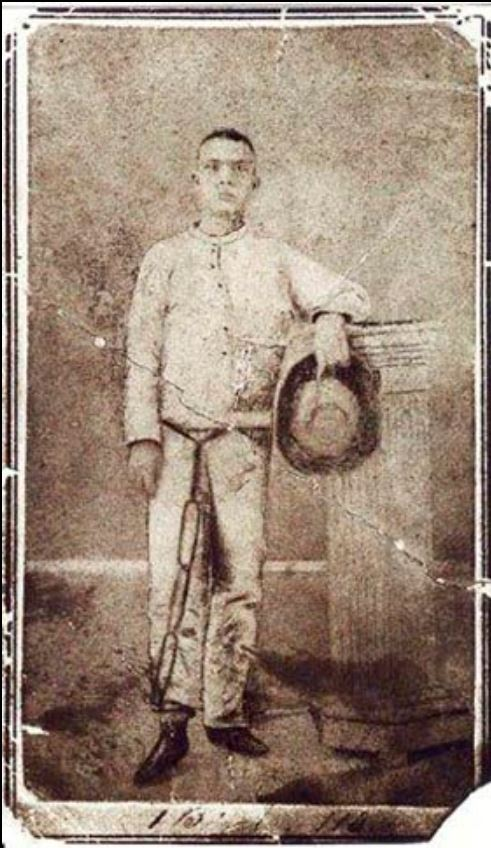 Jose Marti in the quarry of San Lazaro. Havana, Cuba.